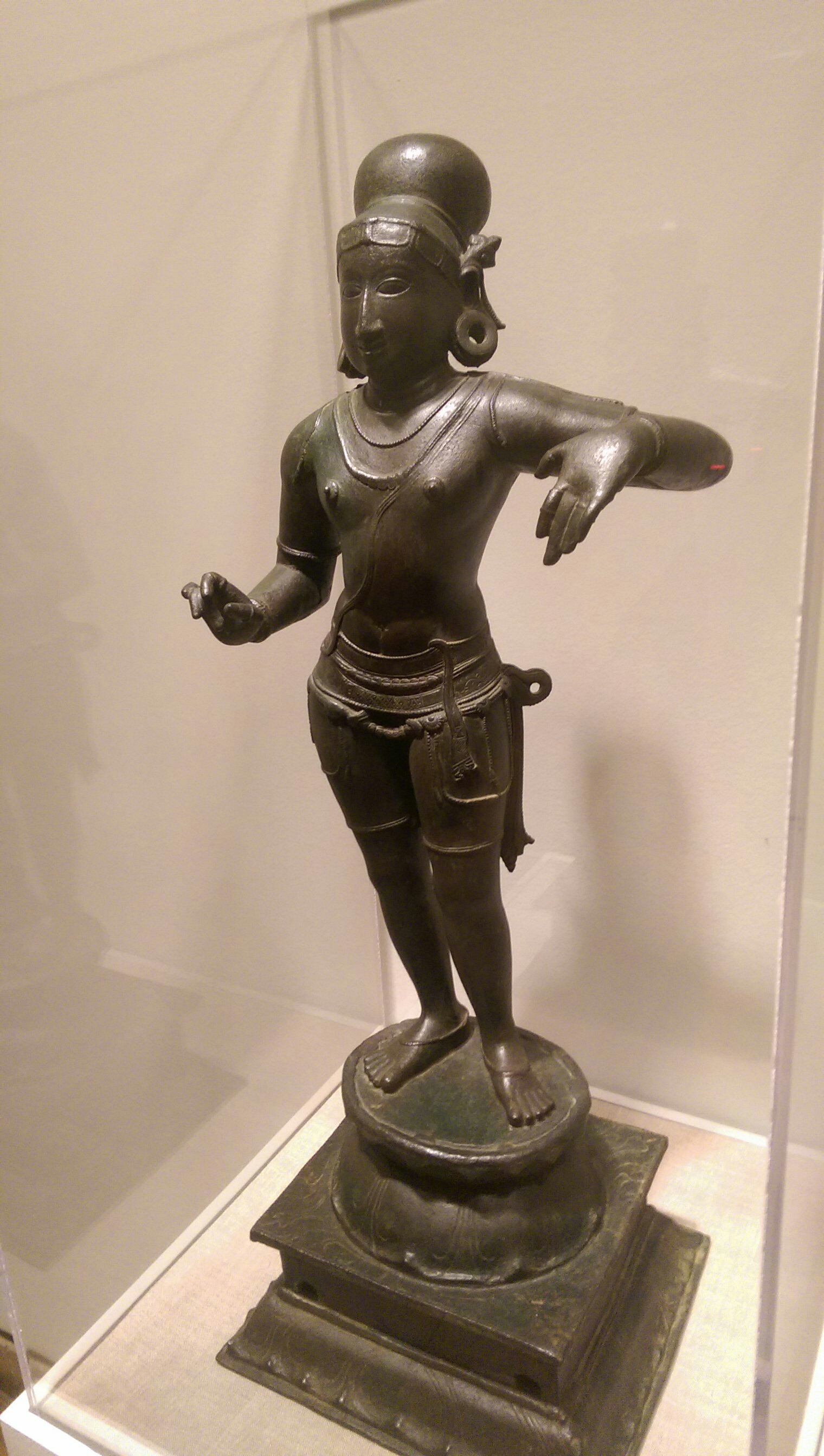 A copper alloy sculpture of a Shiva Bhakti practitioner. This is estimated to have been made in Tamil Nadu, India in the 11th Century or later, and was on display at the Philadelphia Museum of Art. It was a gift from Mr. and Mrs. Elliott H. Eisman.